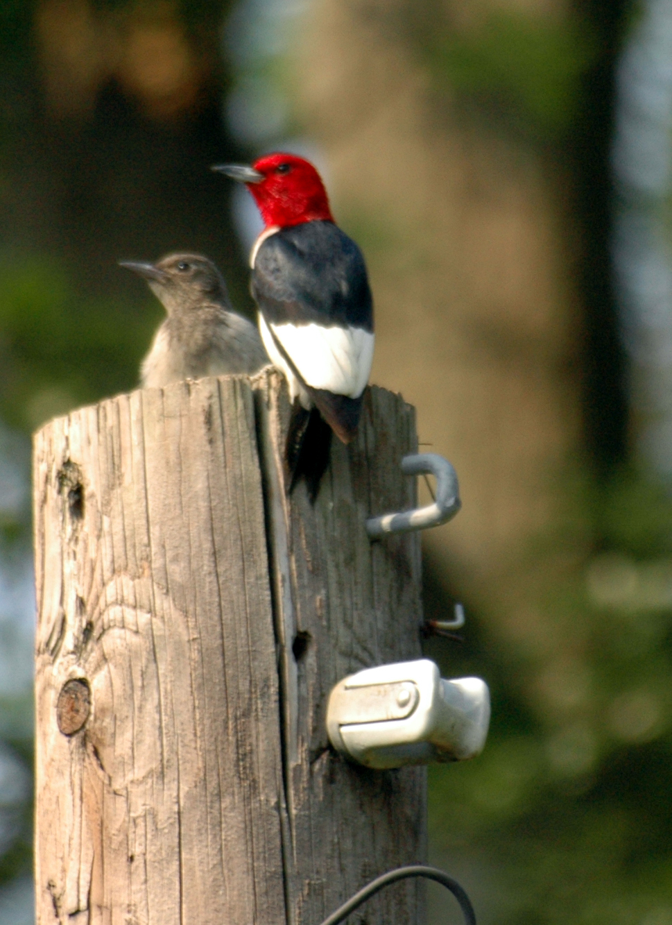 Spotted this pair of Red-Headed woodpeckers (Melanerpes erythrocephalus) during a bird walk in Piedmont Park, Atlanta with Georgann Schmalz of the Atlanta Audubon Society. She said it was adult and child.